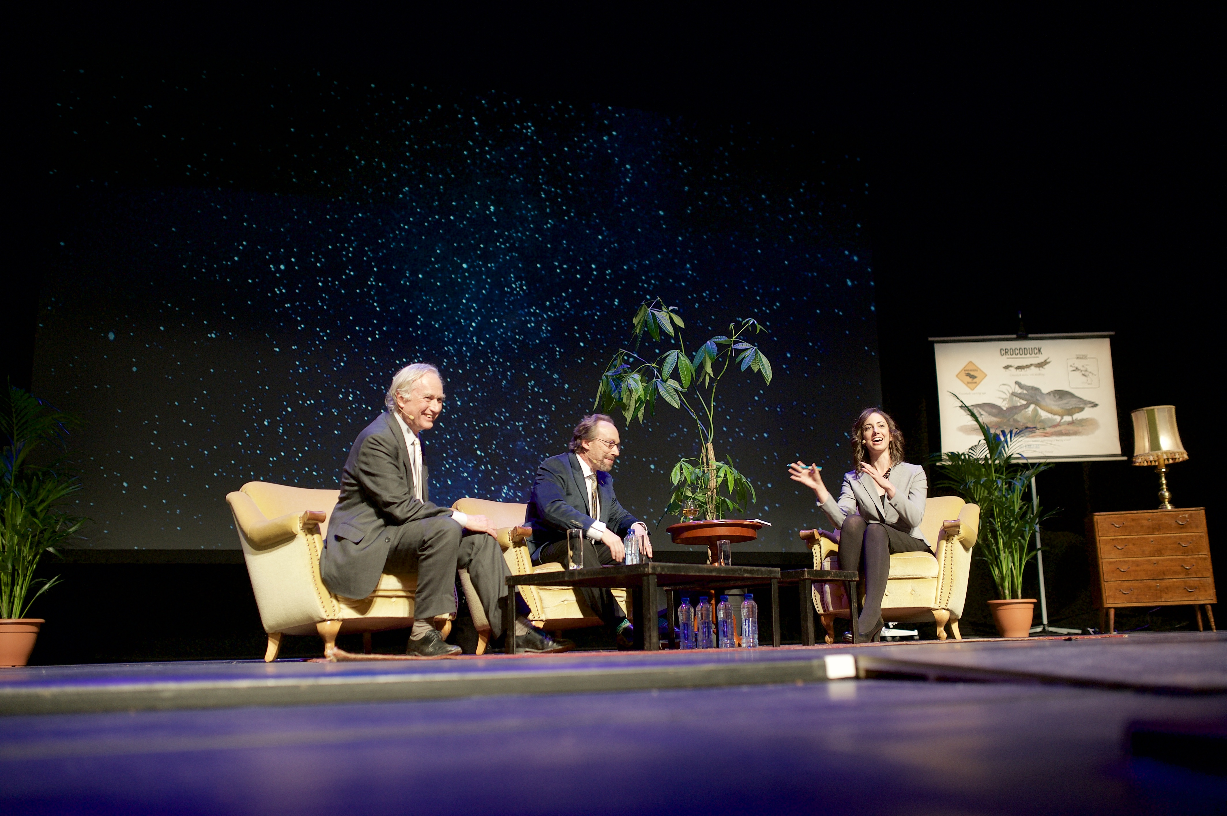 Picture taken shortly after the start of the debate.